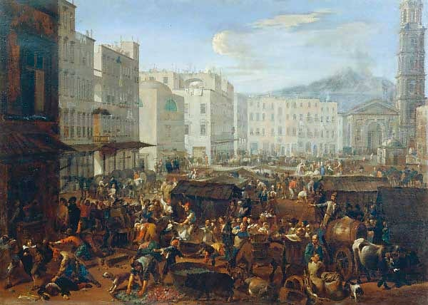 The Anti-Spanish Revolt of Masaniello in the Piazza del Mercato in Naples on 7 July 1648